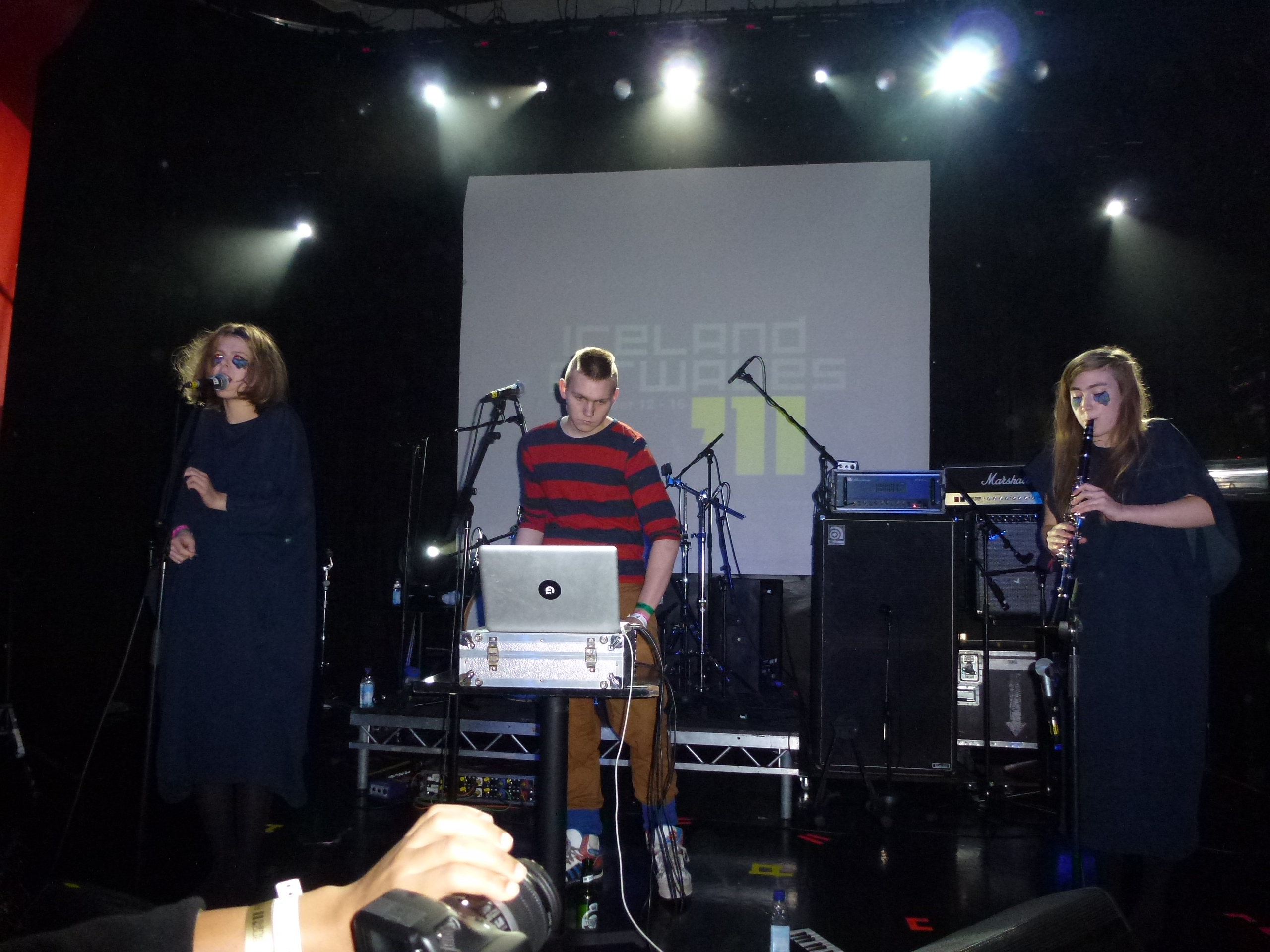 Samaris performing at the 2011 Iceland Airwaves festival. From left to right: Jófríður Ákadóttir, Þórður Kári Steinþórsson, Áslaug Rún Magnúsdóttir